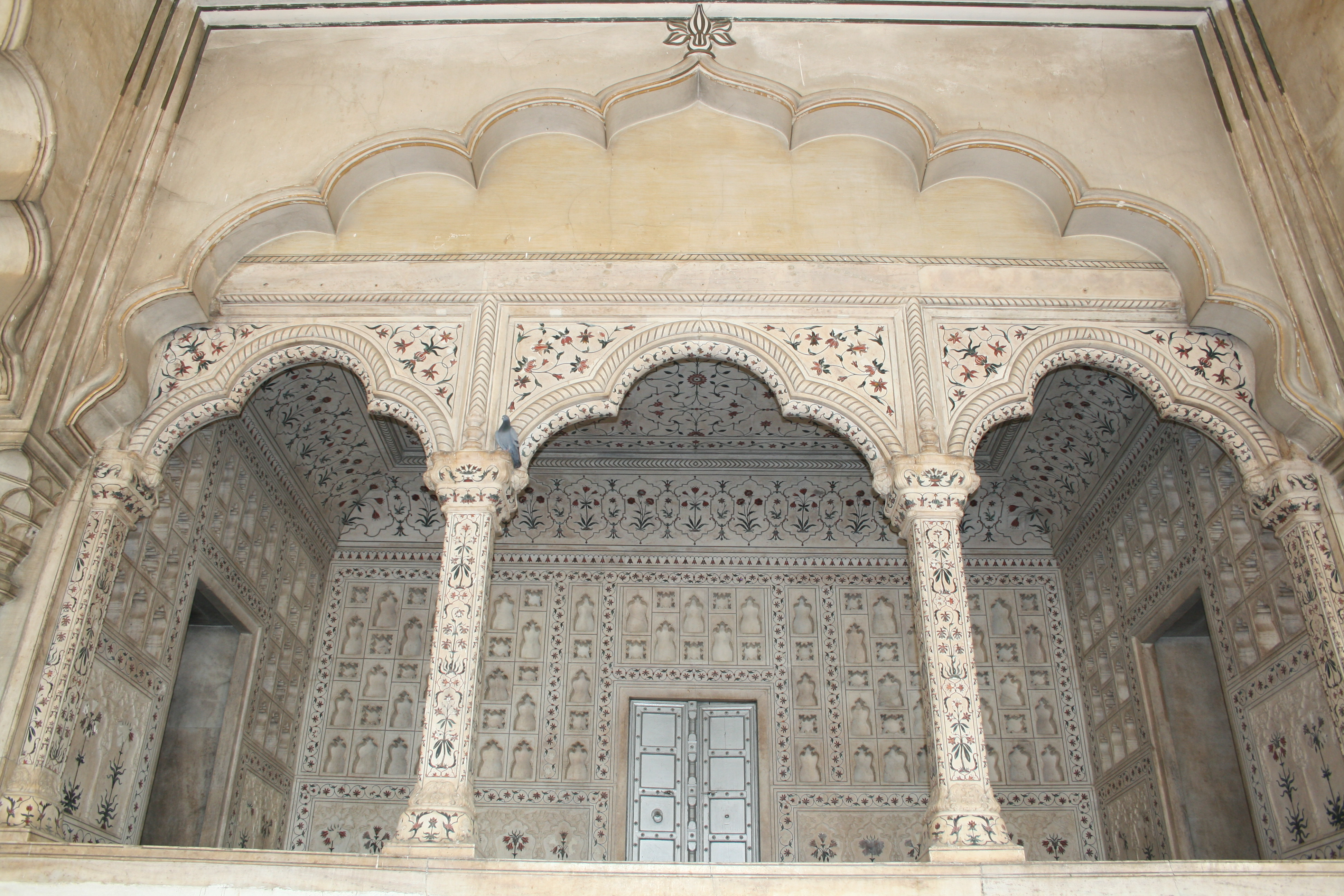 Diwan-i-Am, Red Fort, Agra, India. Takht-e Murassa - The emperor's chamber